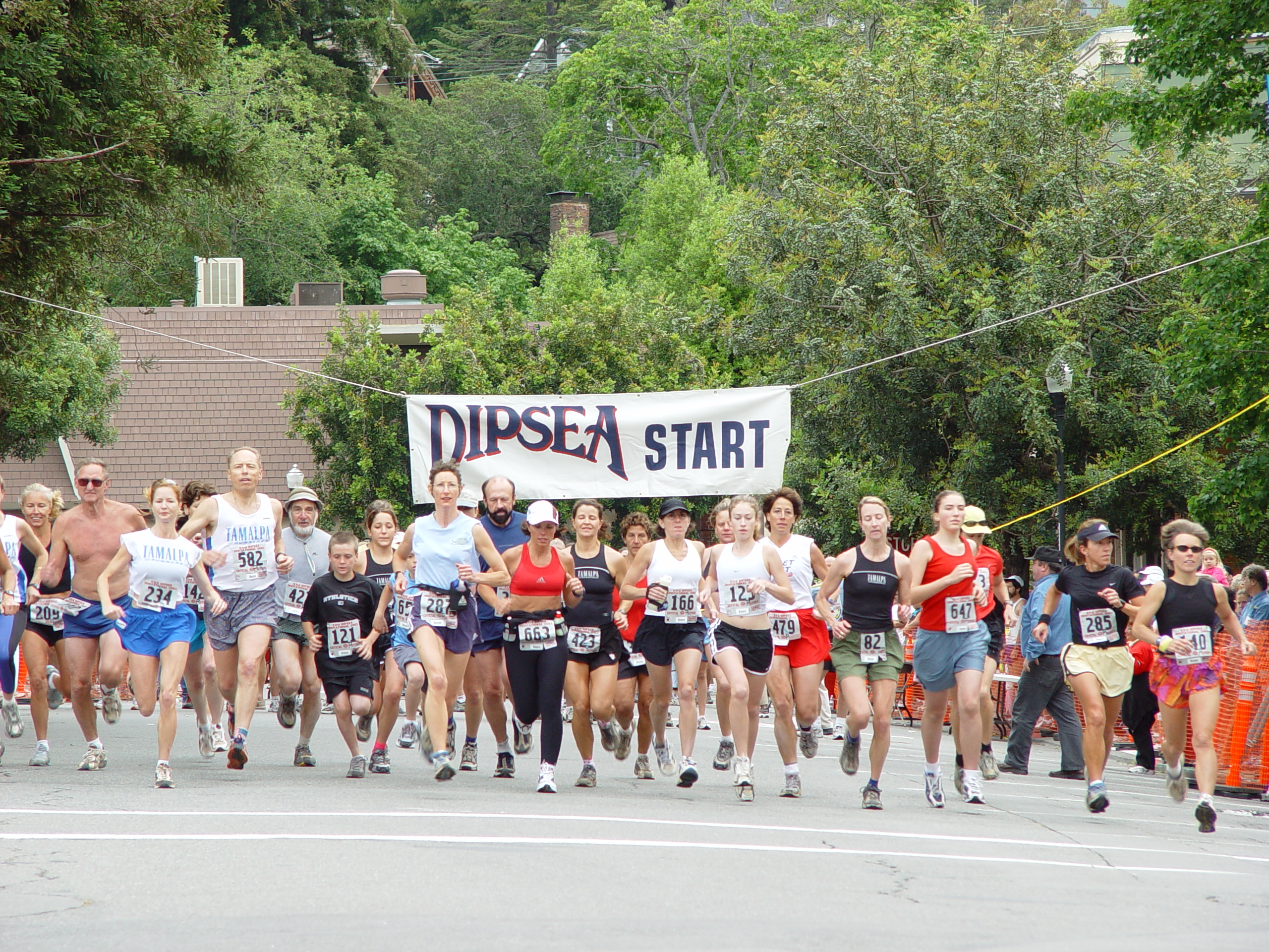 One group leaving the starting line in the 2003 Dipsea Race, an annual foot race in Mill Valley and Mount Tamalpais, in Northern California.